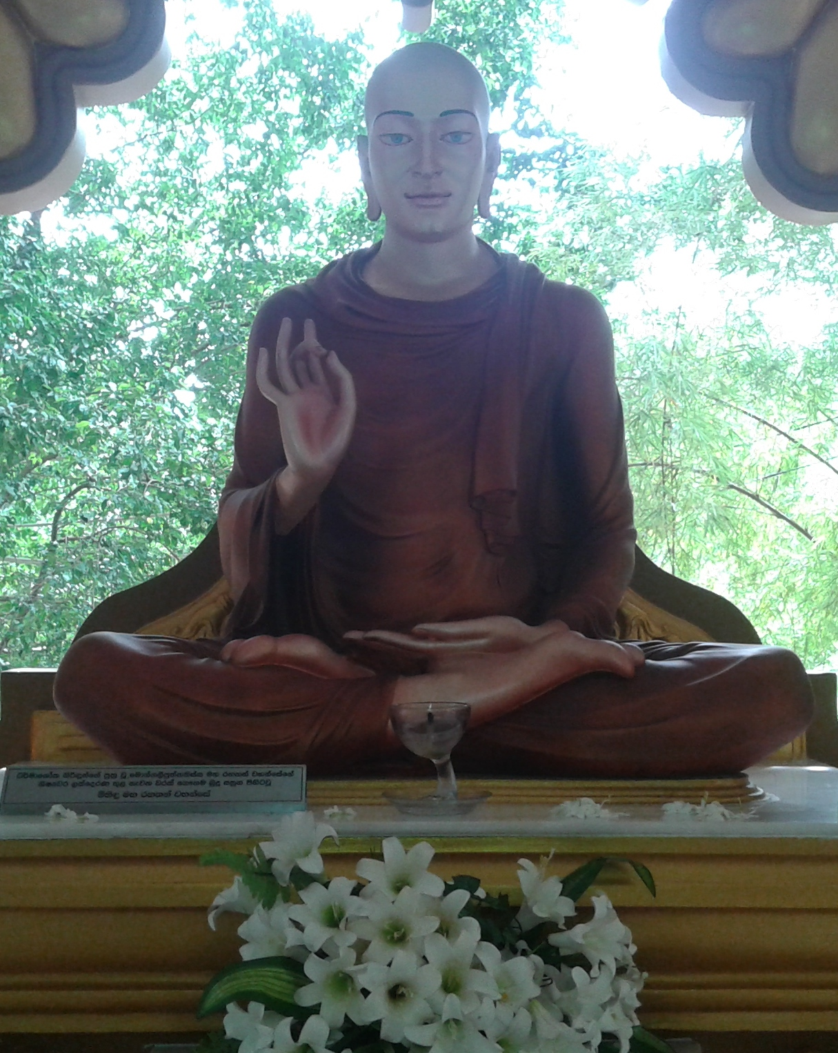 An Arhat Mahinda Statue at a Monastery. සිංහල: මිහිඳු රහතන් වහන්සේ.